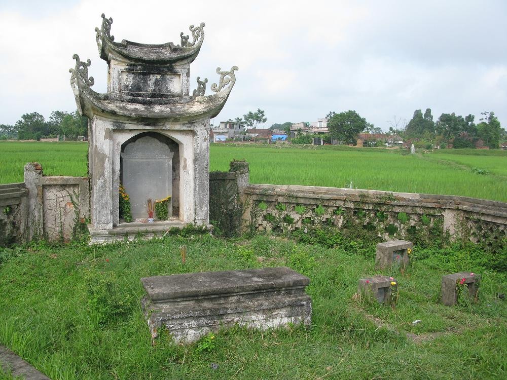 Lăng của cụ tam nguyên Vũ Phạm Hàm tại làng Đôn Thư, xã Kim Thư, huyện Thanh Oai, thành phố Hà Nội